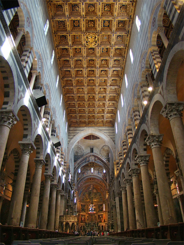 Santa Maria Assunta Cathedral, Pisa, Tuscany, Italy. Nave and vault.